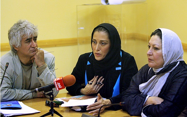 Mahtab Keramati, Children's Day ceremony at Iranian Artists Forum (6 8607150457 L600) unicef archive